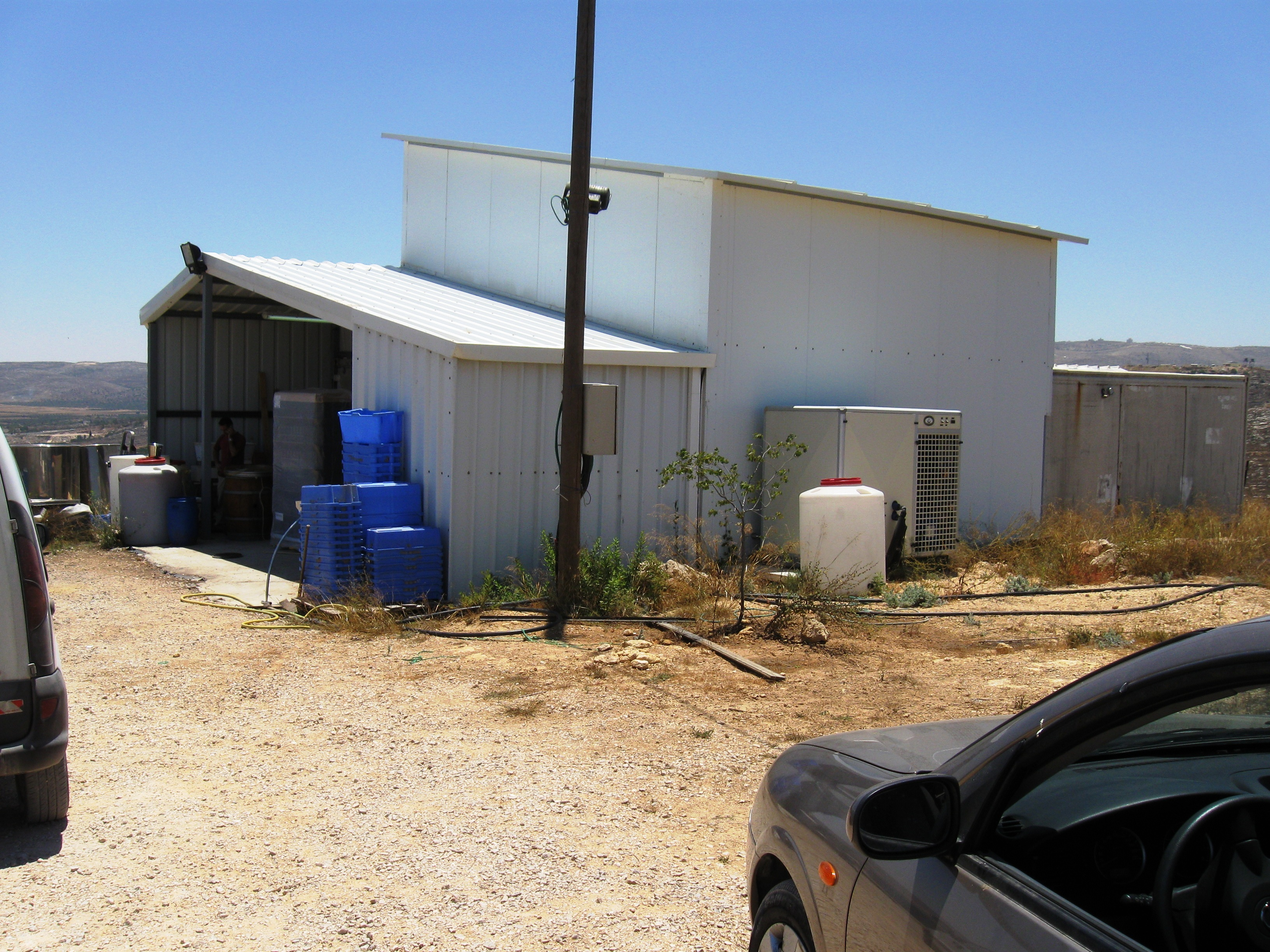 Gevaot_Baoptique_Wine3